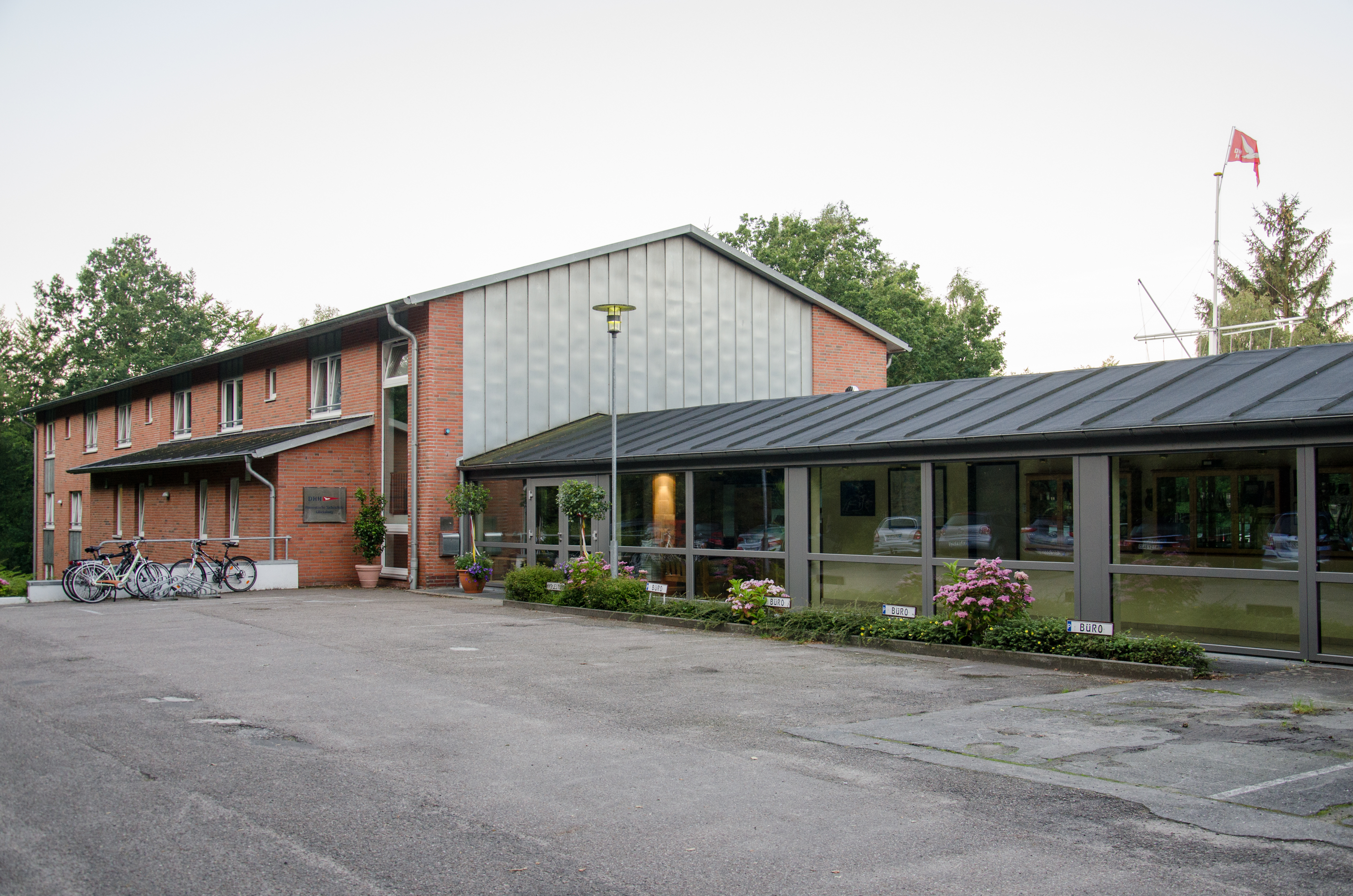 Building and main entrance of the Hanseatic Yacht school in Glücksburg, Germany.